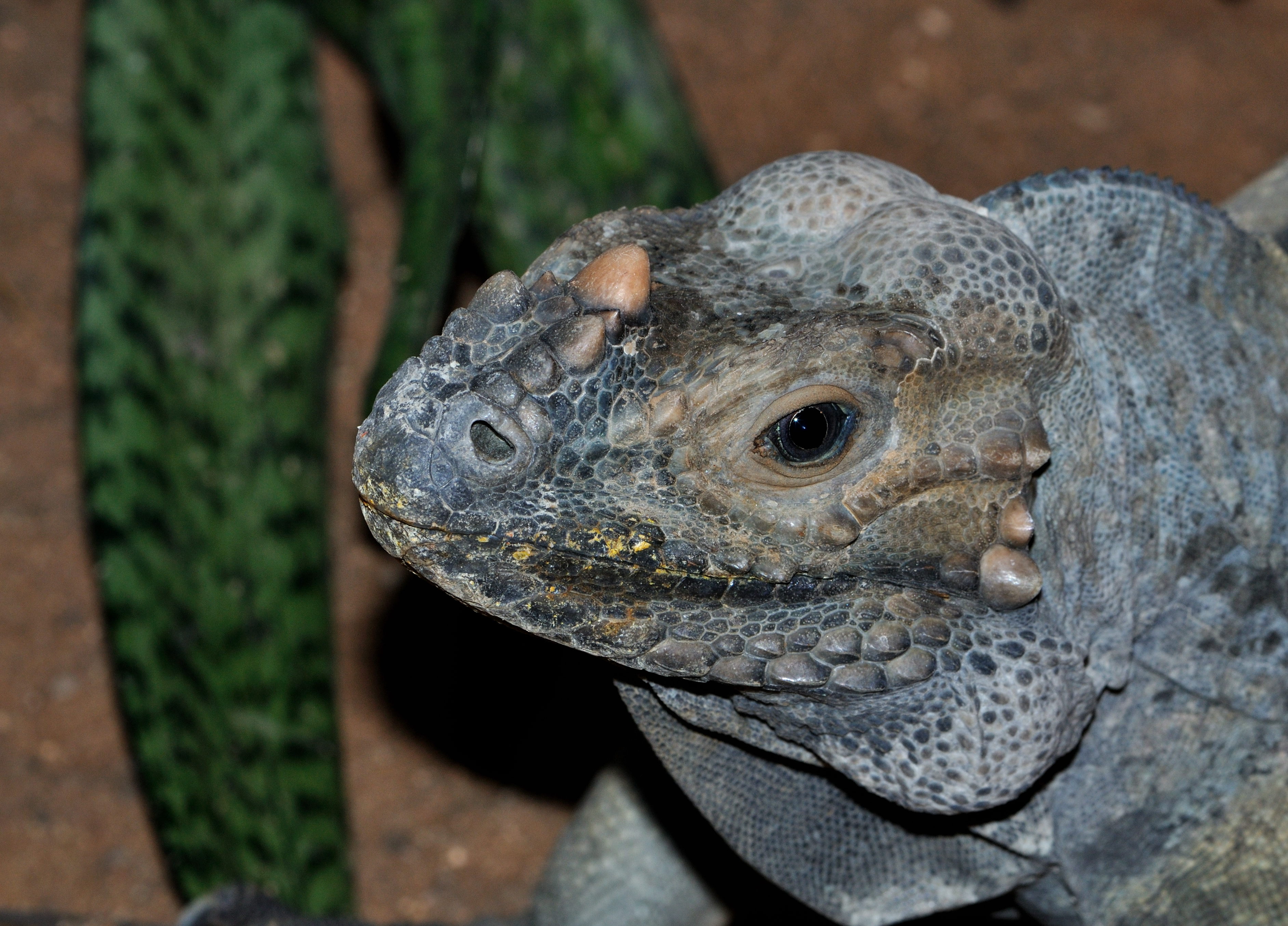 Rhinoceros Iguana (Cyclura cornuta) in the Tierpark Hellabrunn, Munich, Germany.